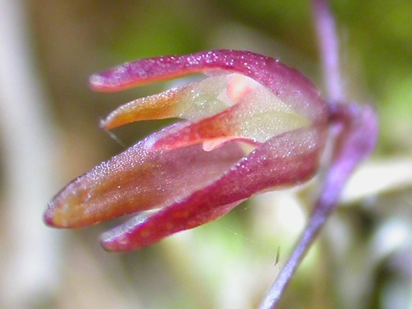 Anathallis